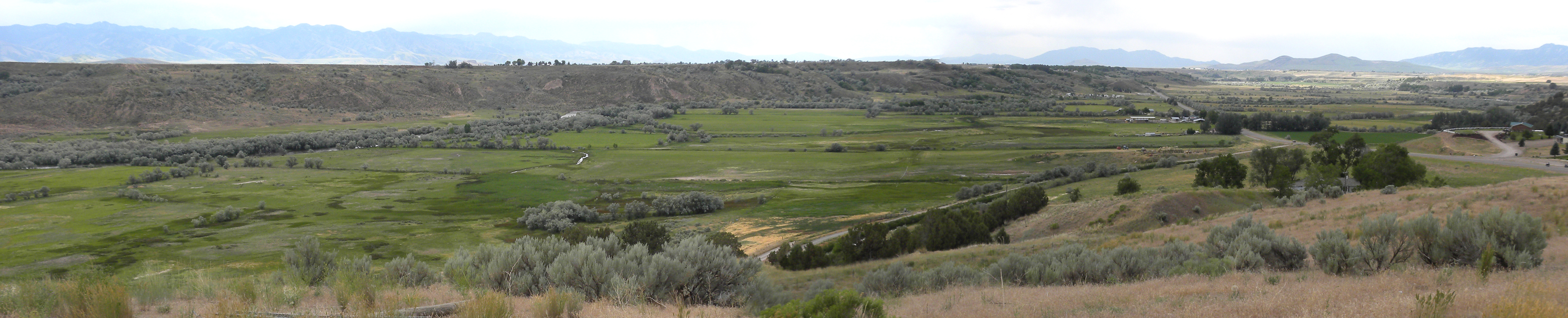 Bear River Massacre site near Preston, Franklin County, Idaho.